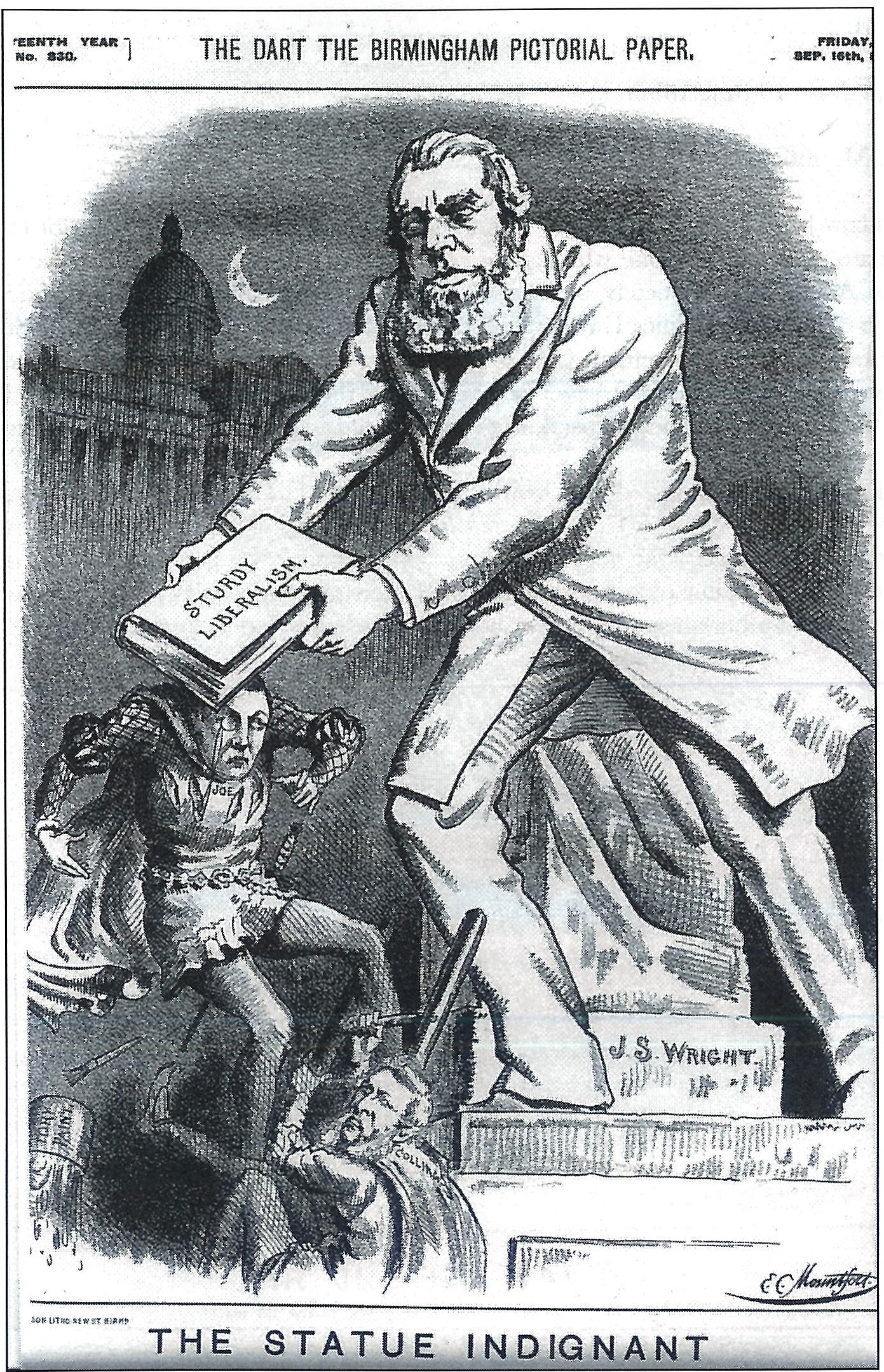 "The Statue Indignant". Cartoon by E. C. Mountford depicting the statue of John Skirrow Wright (1822-1880), sculpted by Francis John Williamson, in Colmore Row, Birmingham. Joseph Chamberlain has climbed a ladder in order to paint the statue with a can of "Tory paint": the statue is shown stepping forward from its plinth to beat Chamberlain over the head with a volume labelled "Sturdy Liberalism". Published in 'The Dart' (16 Sept 1892).